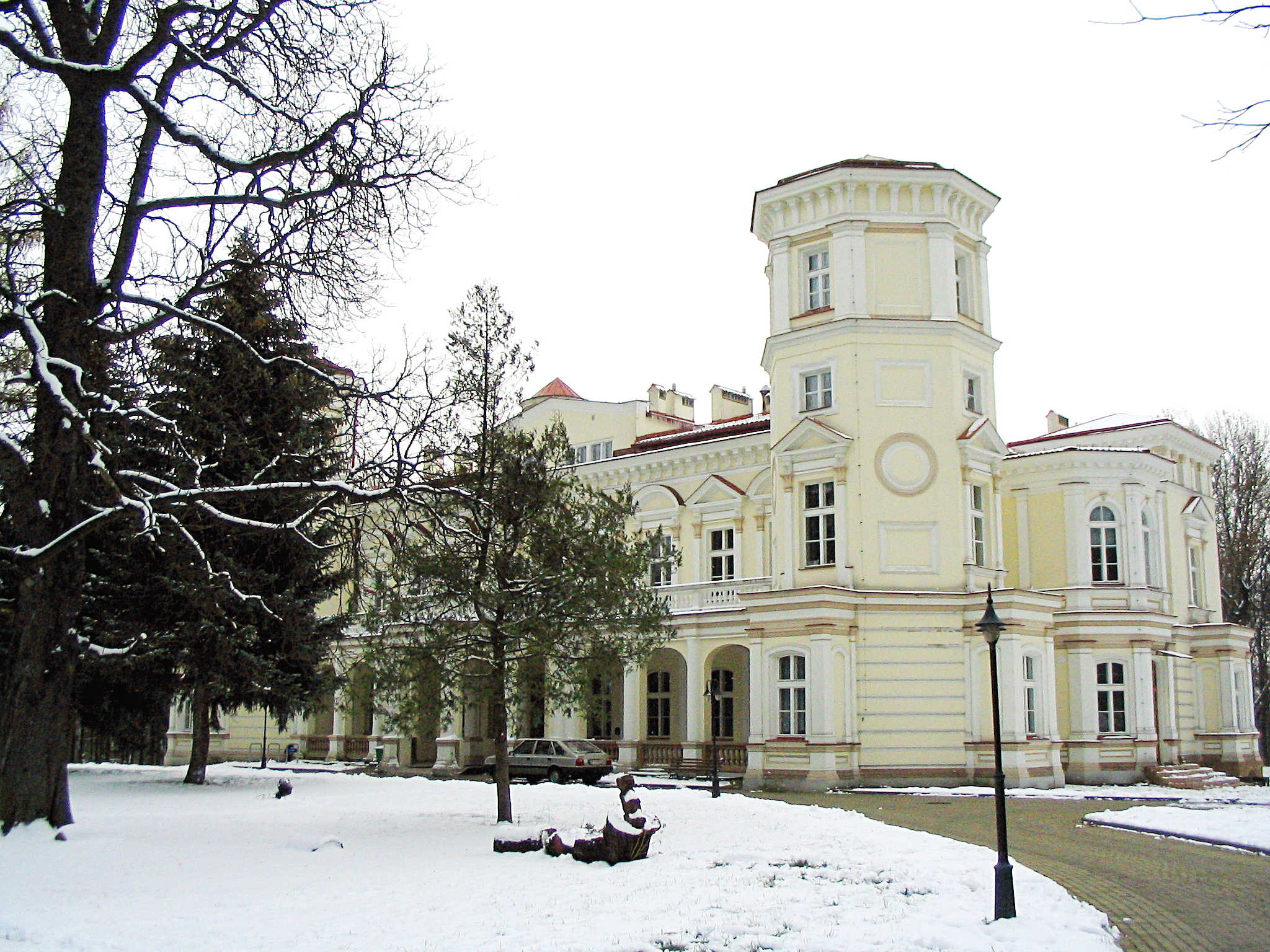 Lubomirski's Palace in Przemyśl, Poland. Państwowa Wyższa Szkoła Wschodnioeuropejska.